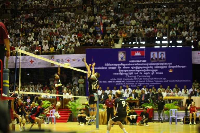 German Team against Cambodia